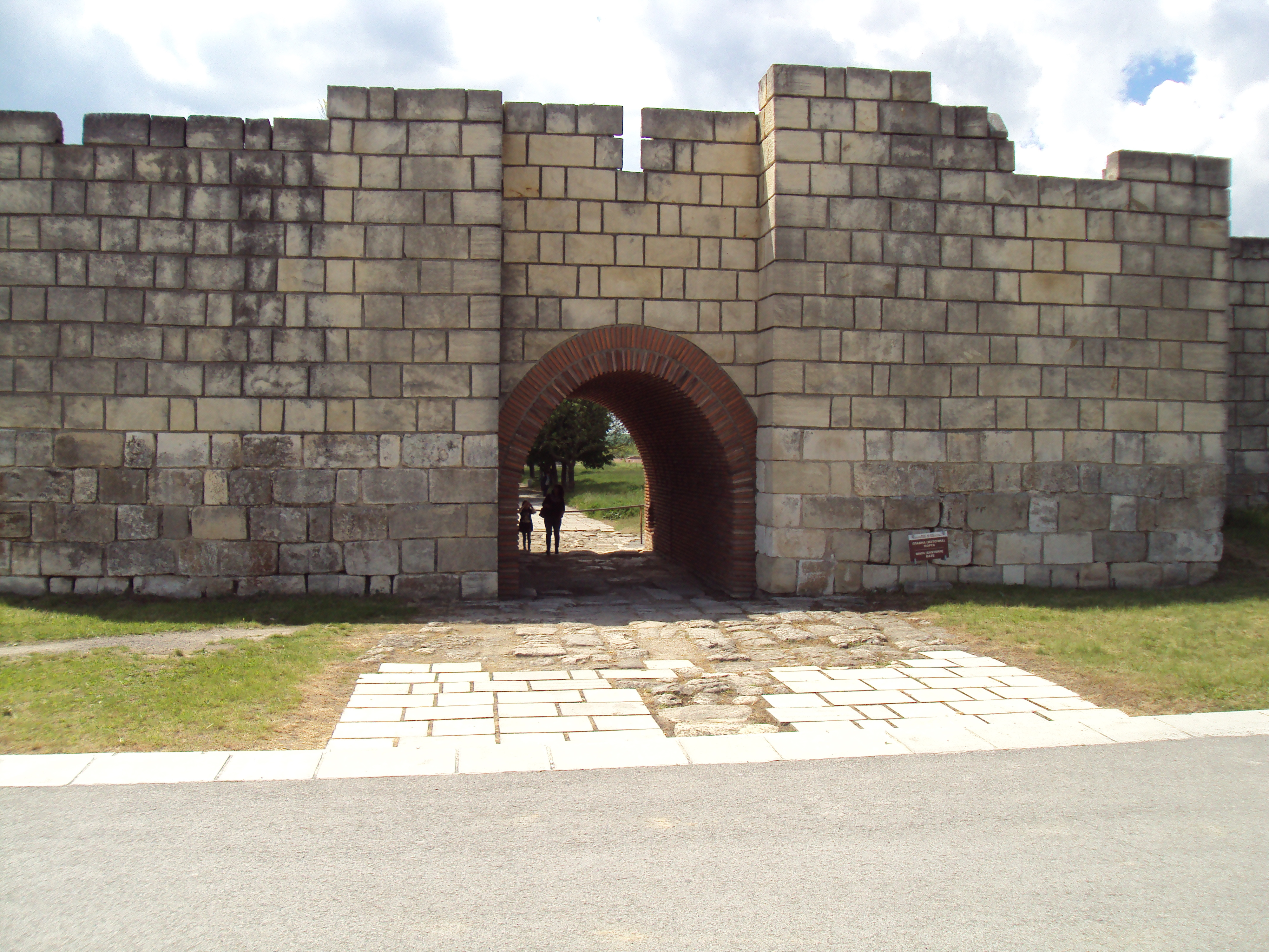 National Historical and Archaeological reserve Pliska